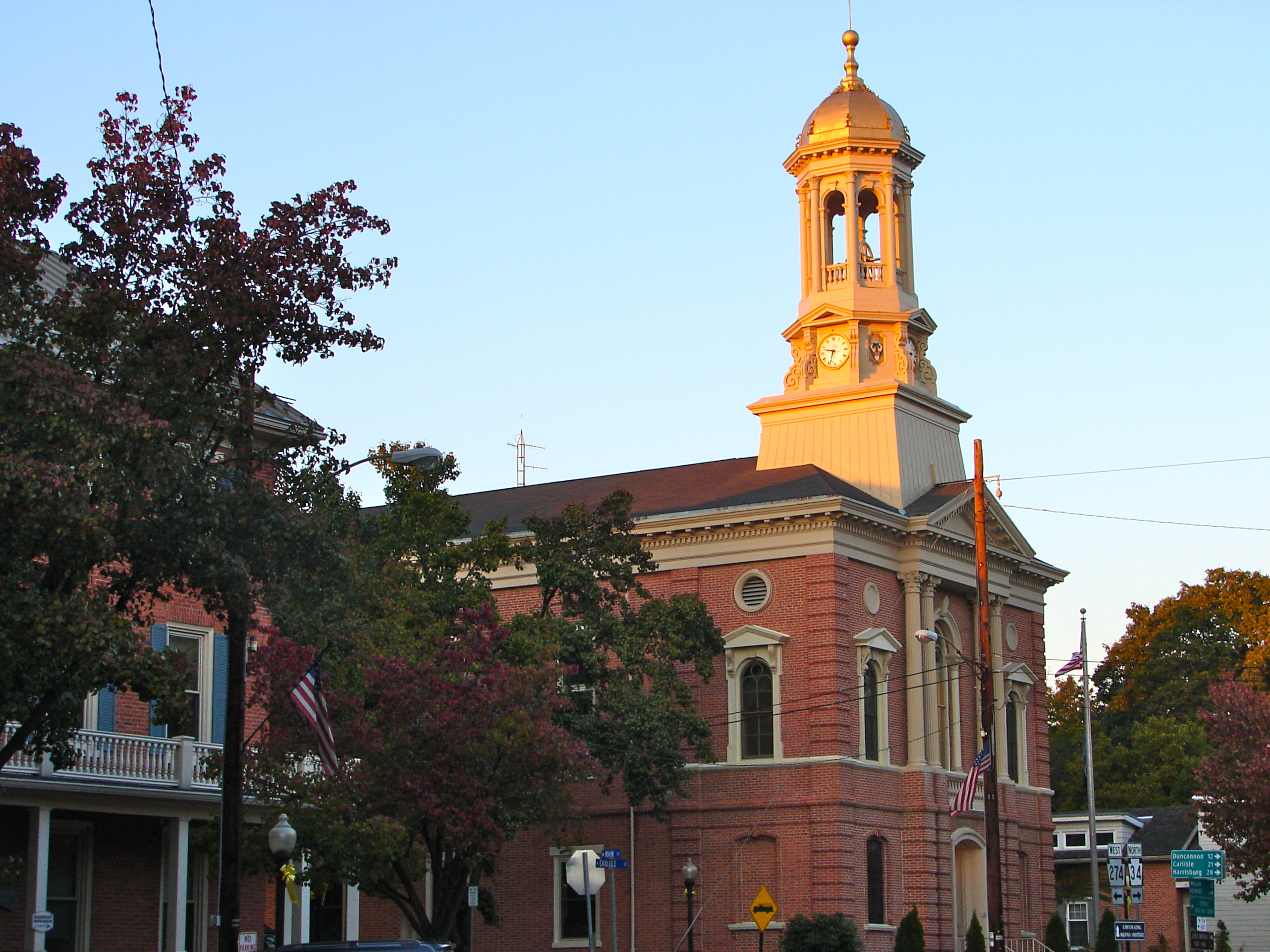 Perry County Courthouse on the NRHP since February 24, 1975. On Center Square, Bloomfield, Pennsylvania. Bloomfield is also called New Bloomfield.